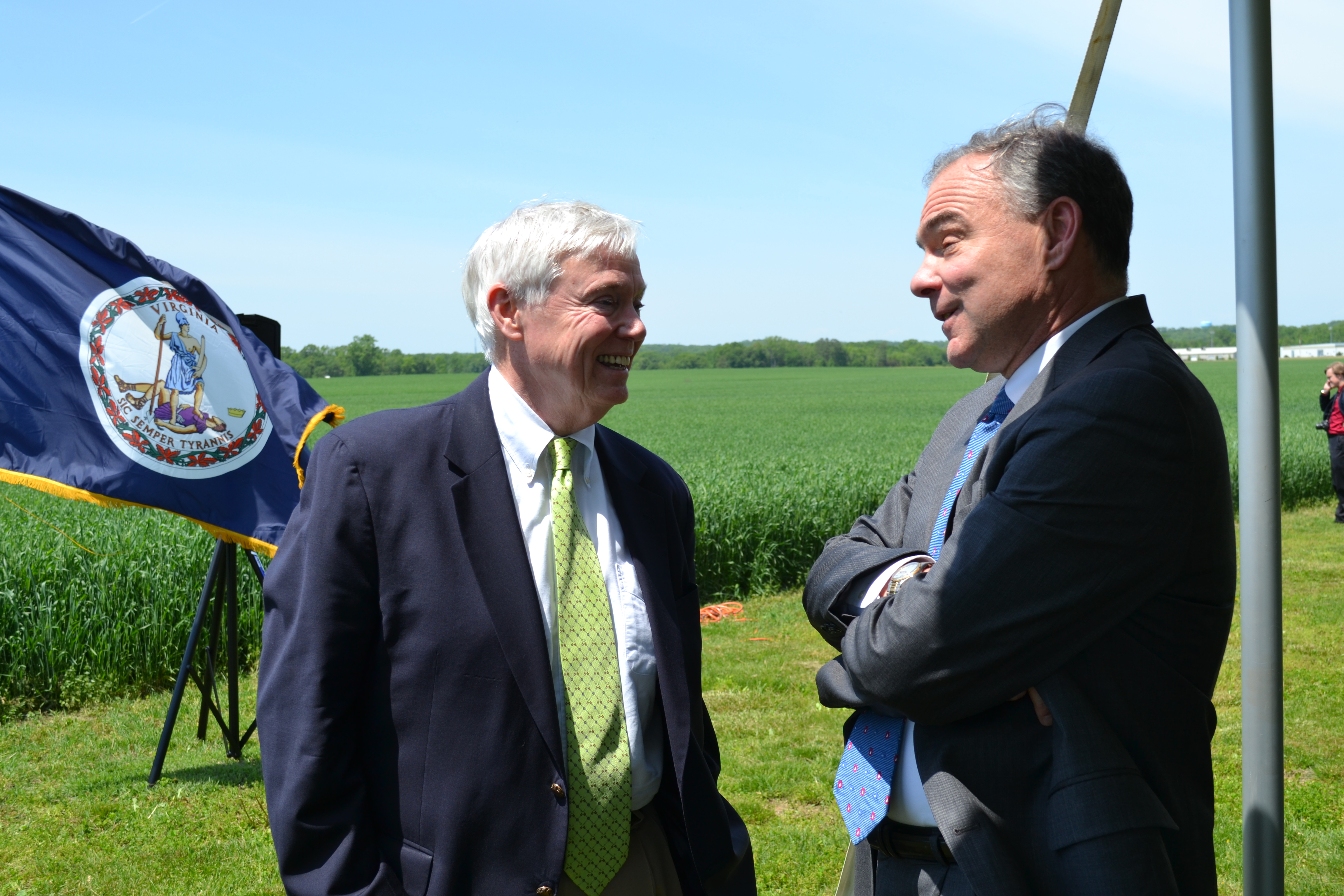 U.S. Senator Tim Kaine of Virginia talking with Speaker of the Virginia House of Delegates Bill Howell at Slaughter Pen battlefield at an event announcing Bipartisan Bill to Reauthorize Battlefield Protection